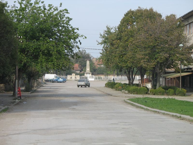 The centre of village Petko Karavelovo, Bulgaria